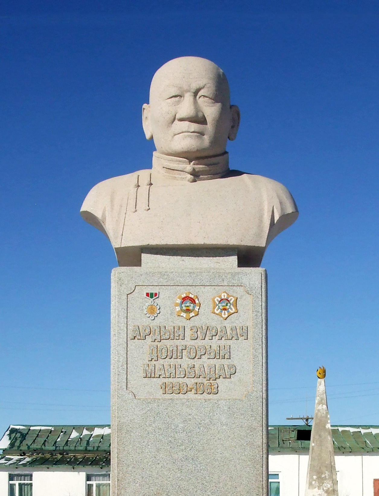 D.Manibadar Statue